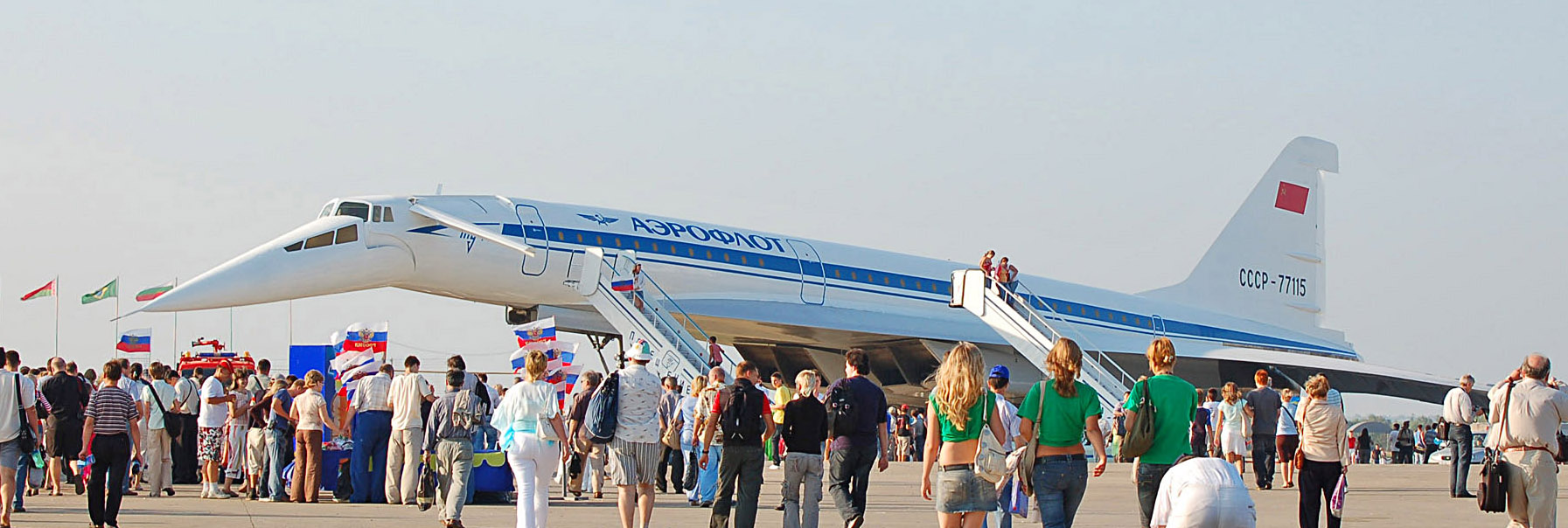 Ту-144 On the international aerospace salon MAKS-2007